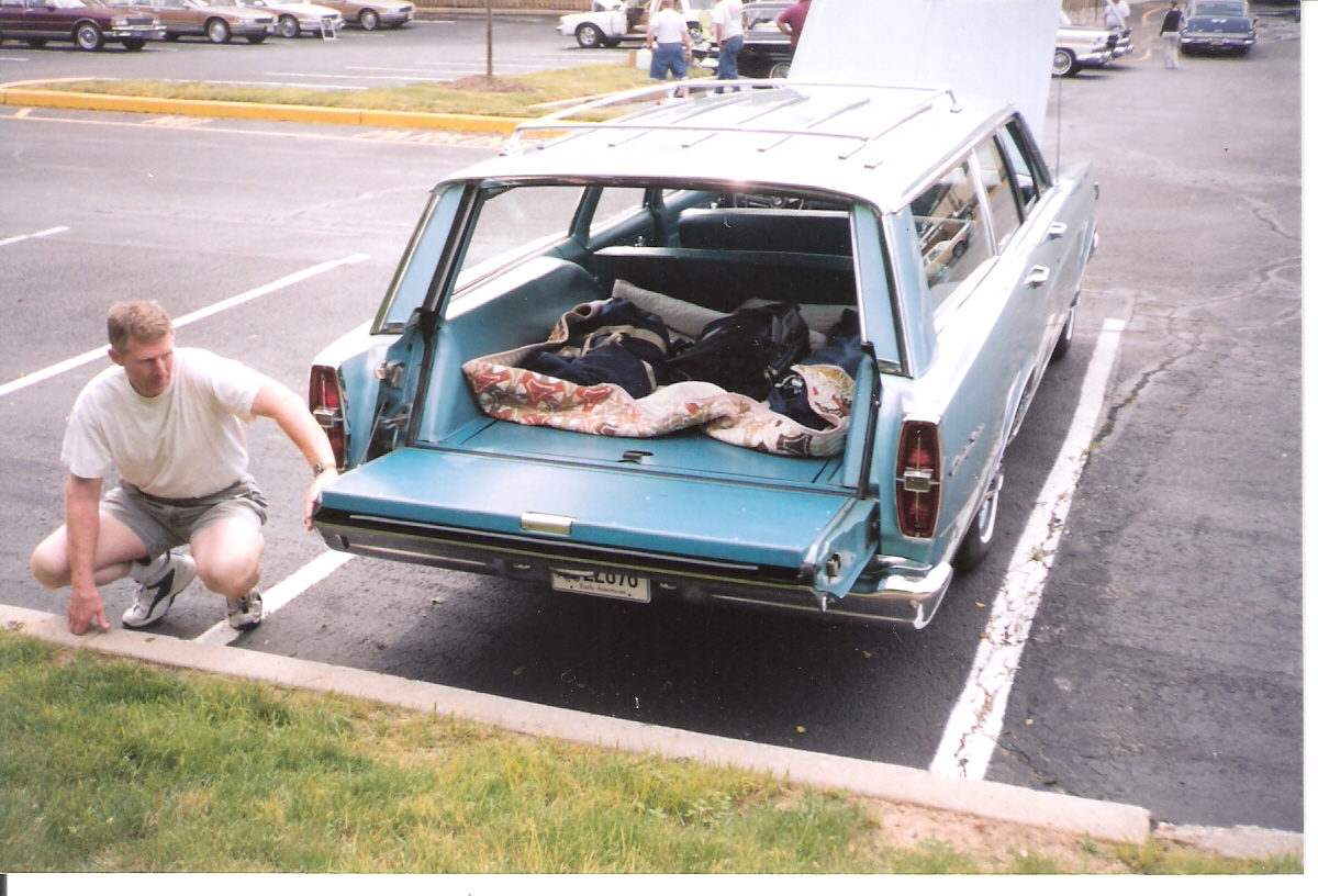 1966 Ford Country Sedan I photographed in Princeton, New Jersey in June 2003, demonstrating that year's new Magic Doorgate folded down like a conventional tailgate.